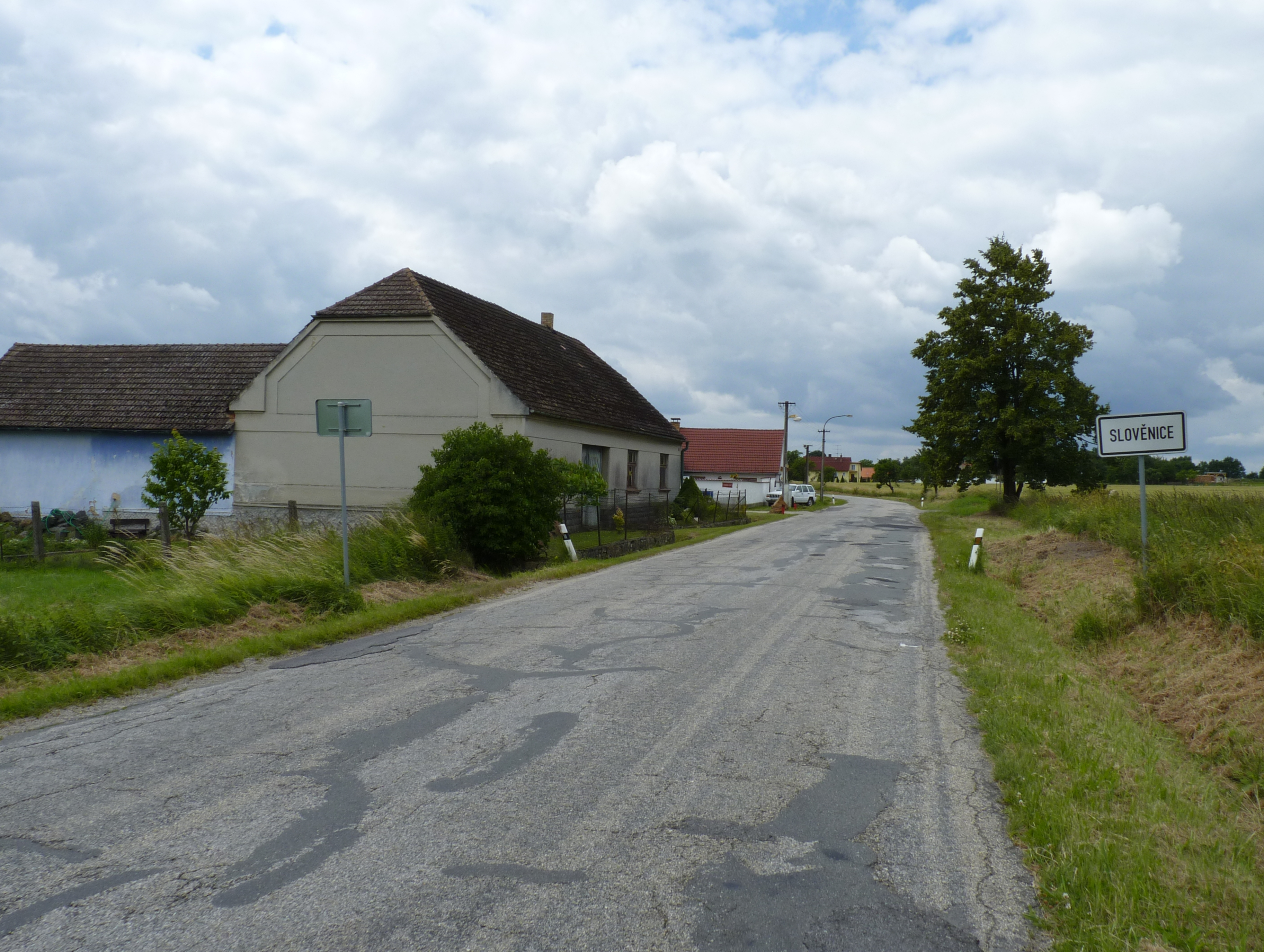 Slověnice. Jindřichův Hradec District, South Bohemian Region, Czech Republic